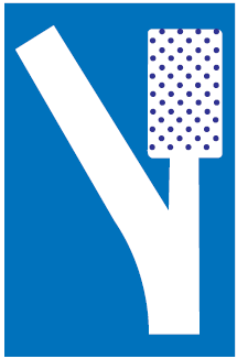 Diagram of road signs of Luxembourg